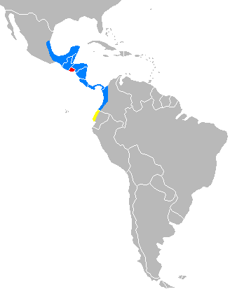 Distribution of Tapirus bairdii with national borders added